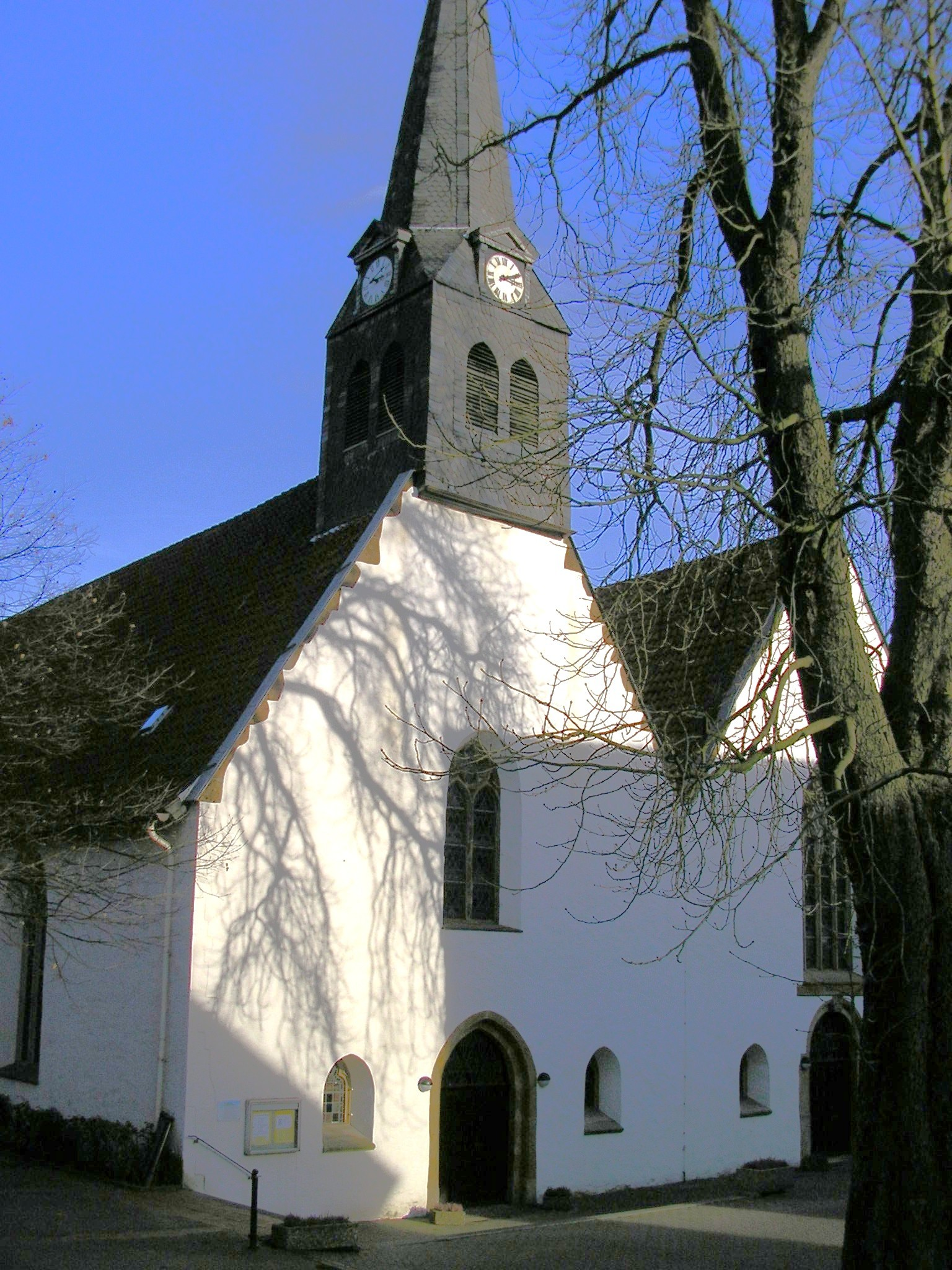 St. Stephan church in town of Vlotho, District of Herford, North Rhine-Westphalia, Germany.